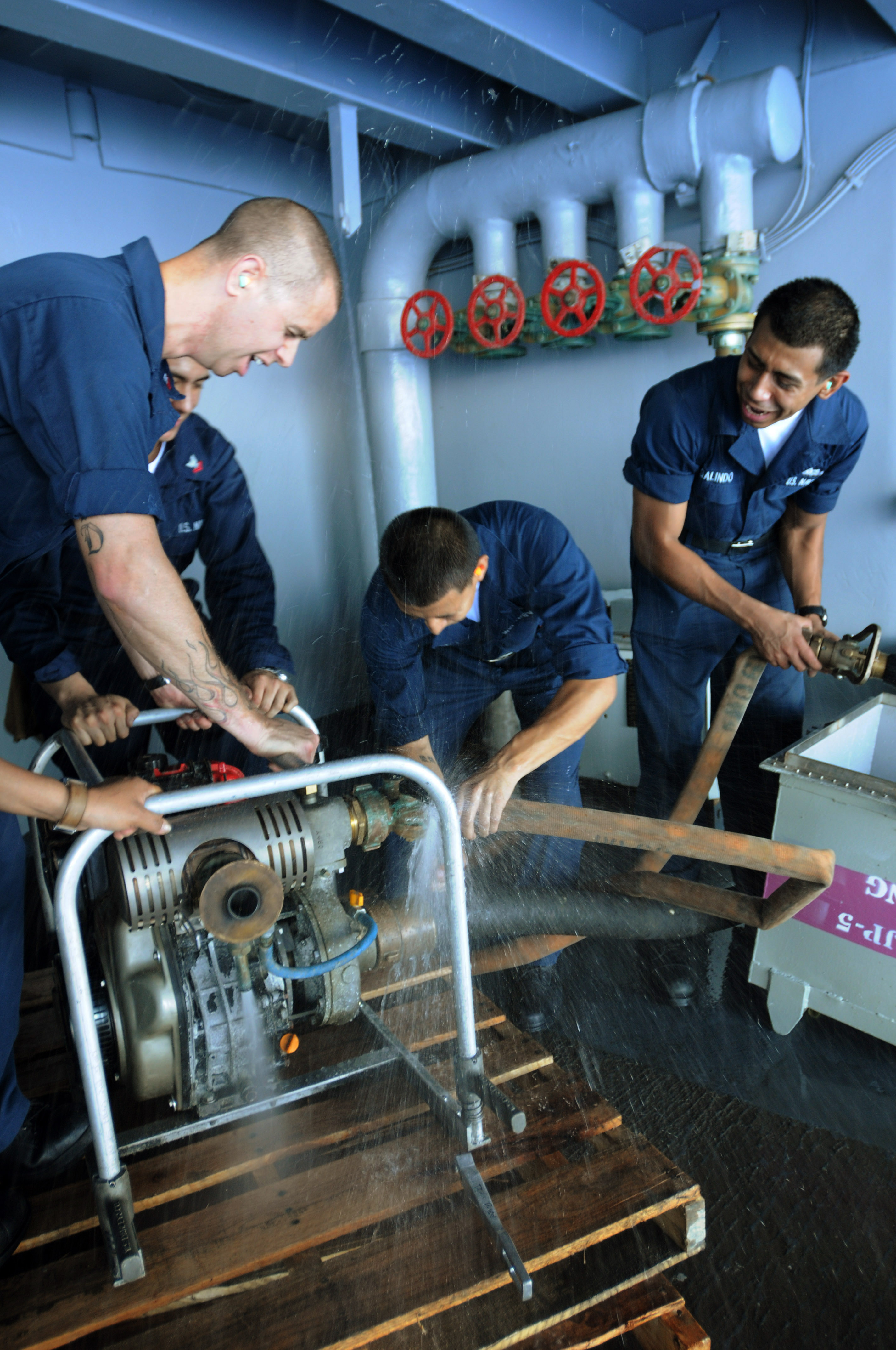 PACIFIC OCEAN (June 11, 2009) Members of the damage control division team from the engineering department of the aircraft carrier USS Ronald Reagan (CVN 76) connect hoses to a P-100 water pump during rescue and assistance drills. Rescue and assistance drills are team building and training exercises where teams of Sailors compete to be the fastest to connect and start their pump . Ronald Reagan is underway on a routine deployment to the western Pacific Ocean. (U.S. Navy Photo by Mass Communication Specialist 3rd Class Chelsea Kennedy/Released)